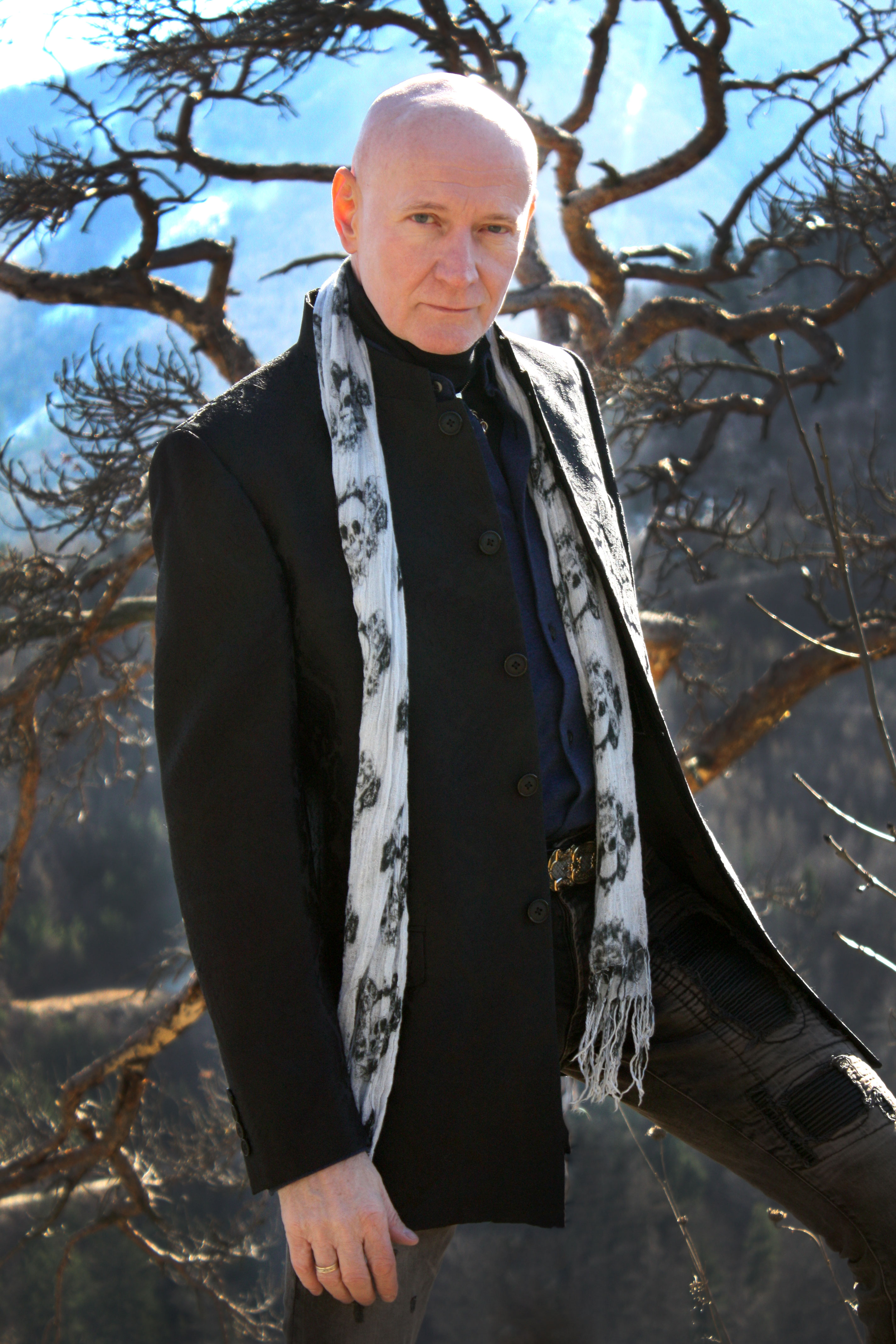 Arno Argos Raunig 2017 sopranist, countertenor, male-soprano